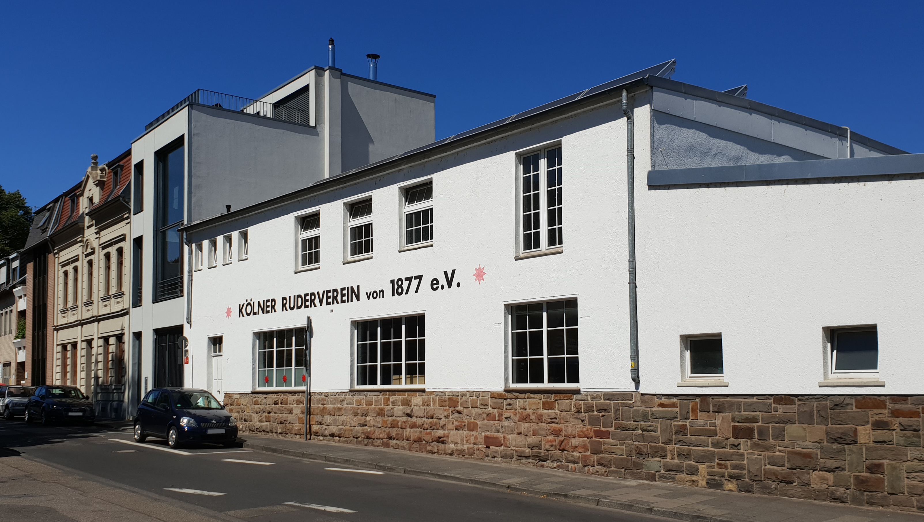 Boat house of the KRV 77 rowing club.